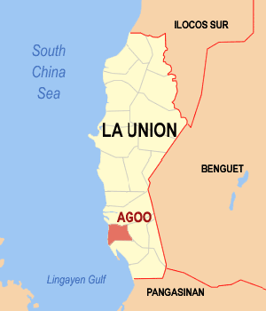 Map of La Union showing the location of Agoo